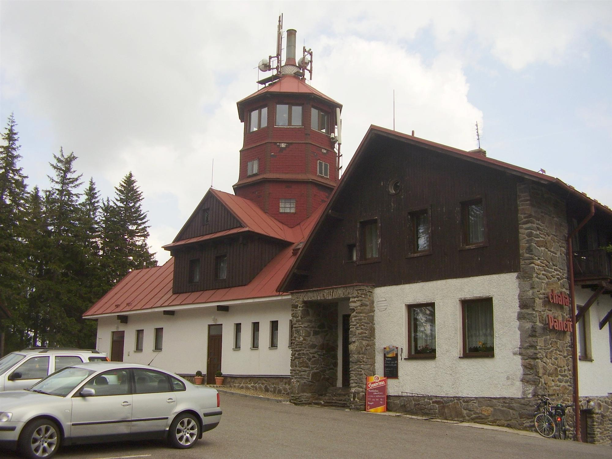 Watch tower on Pancíř in Šumava